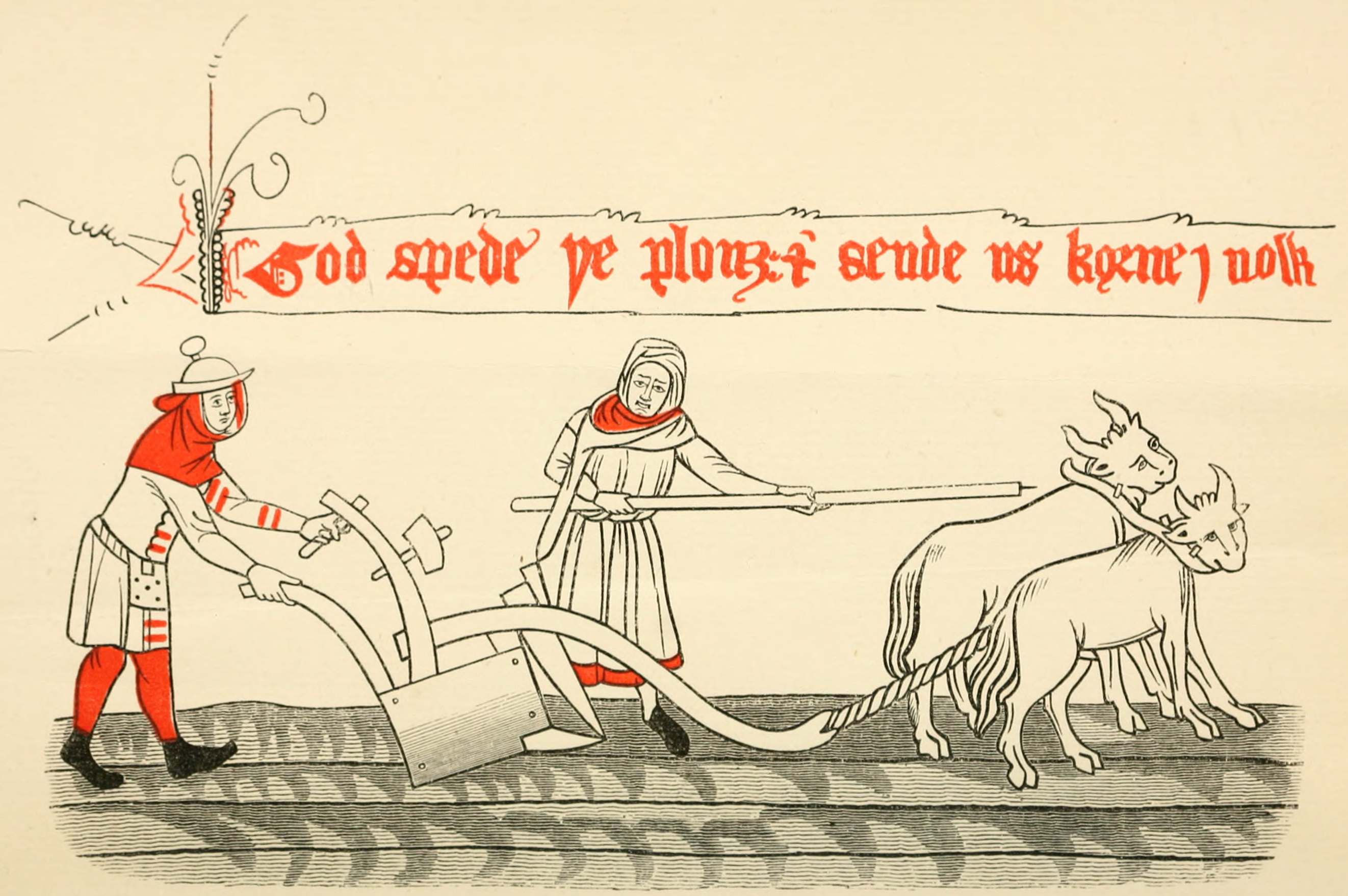 Frontispiece to The Vision and Creed of Piers Ploughman". In the other version referenced below, this is described (as captioned in "Manners, Custom and Dress During the Middle Ages and During the Renaissance Period") as coming from "a very ancient Anglo-Saxon Manuscript published by (presumably, Henry) Shaw" as is transcribed "God spede þe plough, and sende us korne enow".